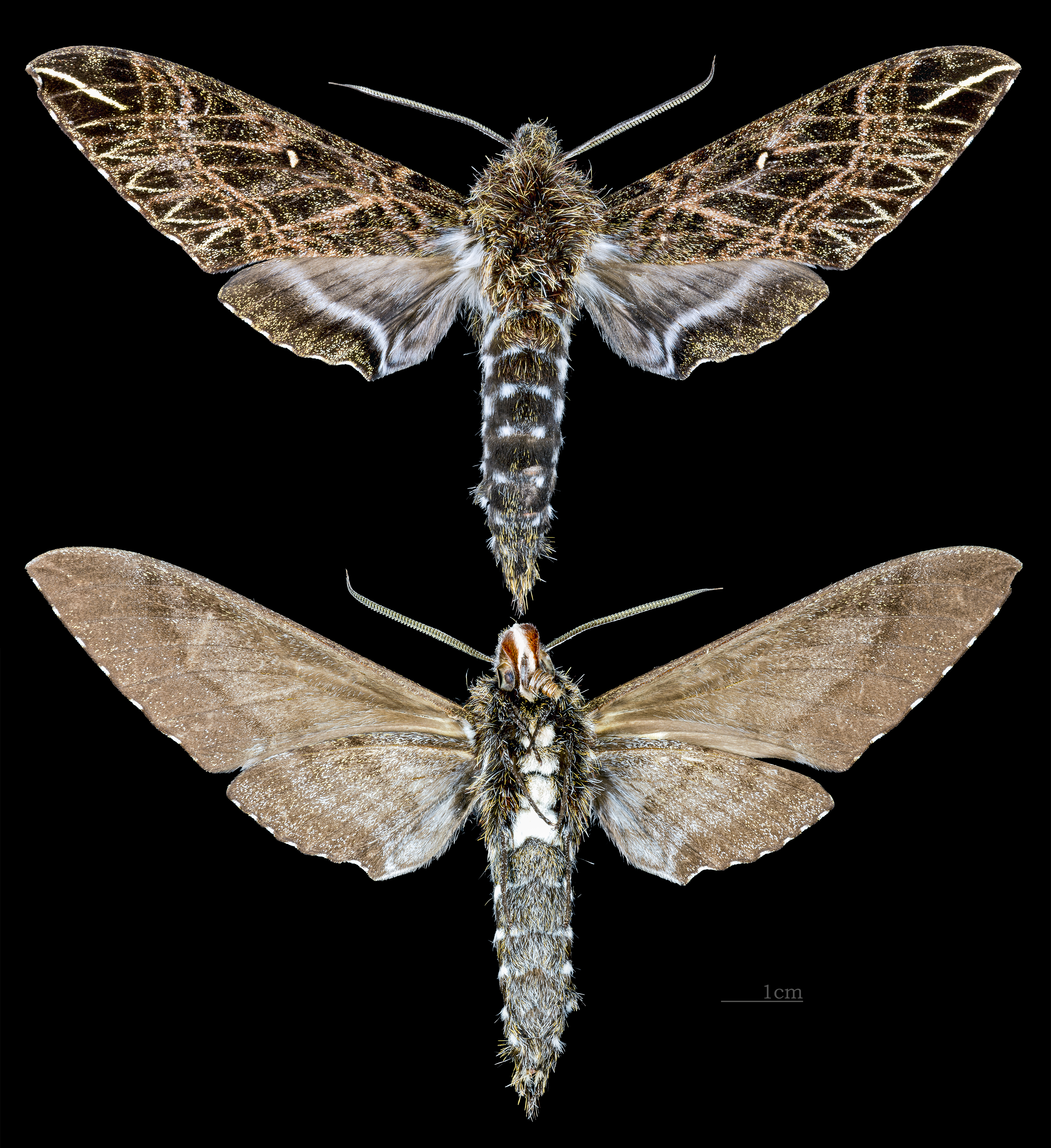 Euryglottis dognini - Two views of same specimen